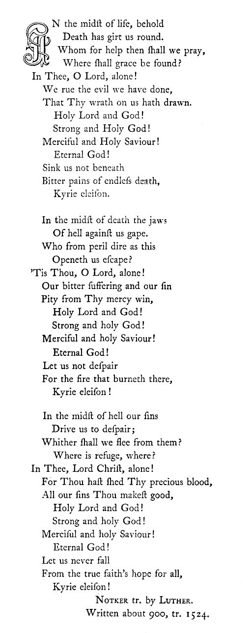 Catherine Winkworth: In the Midst of Life, English adaptation of Luther's Mitten wir im Leben sind